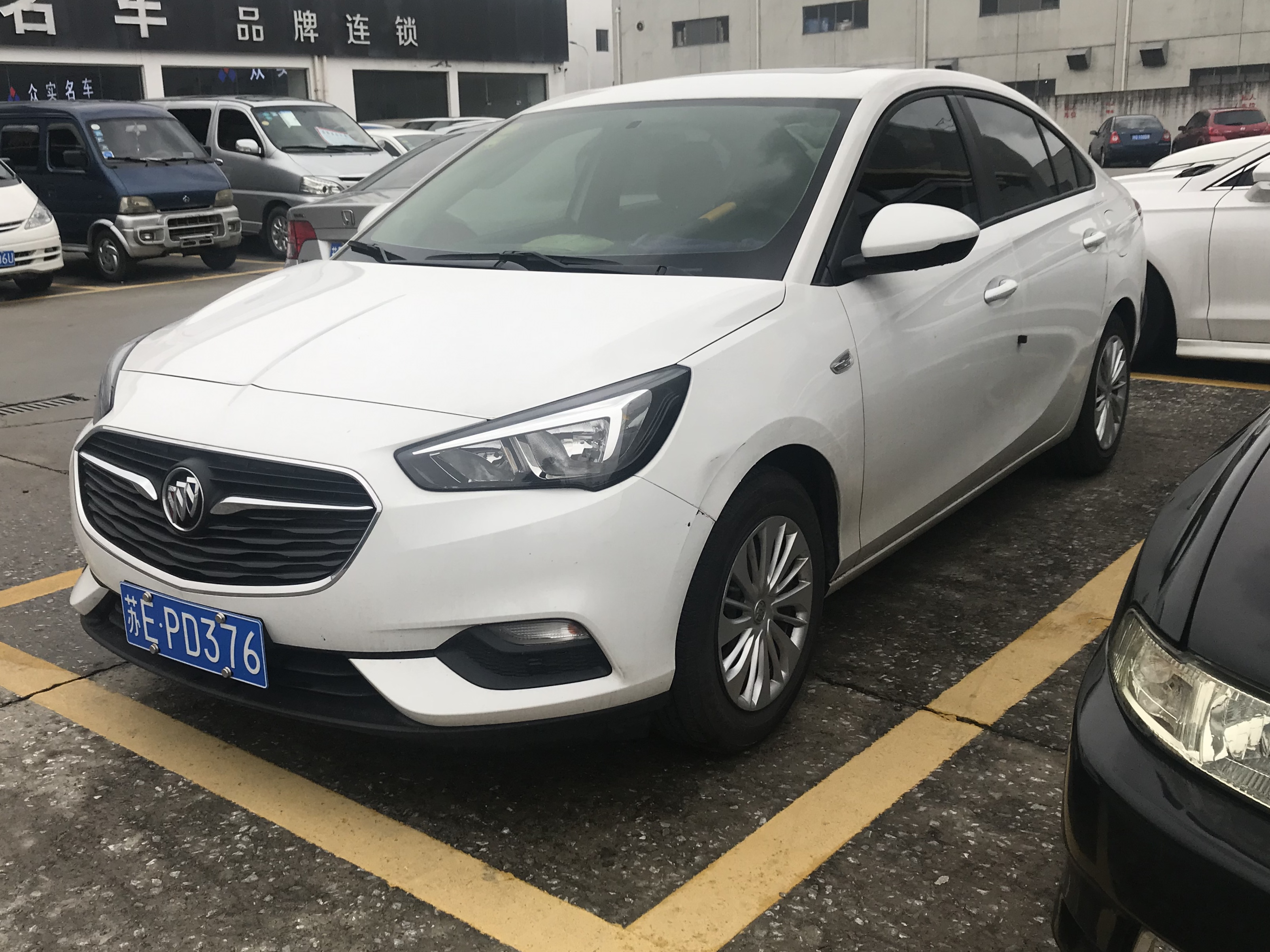 Buick Excelle (Second Generation)